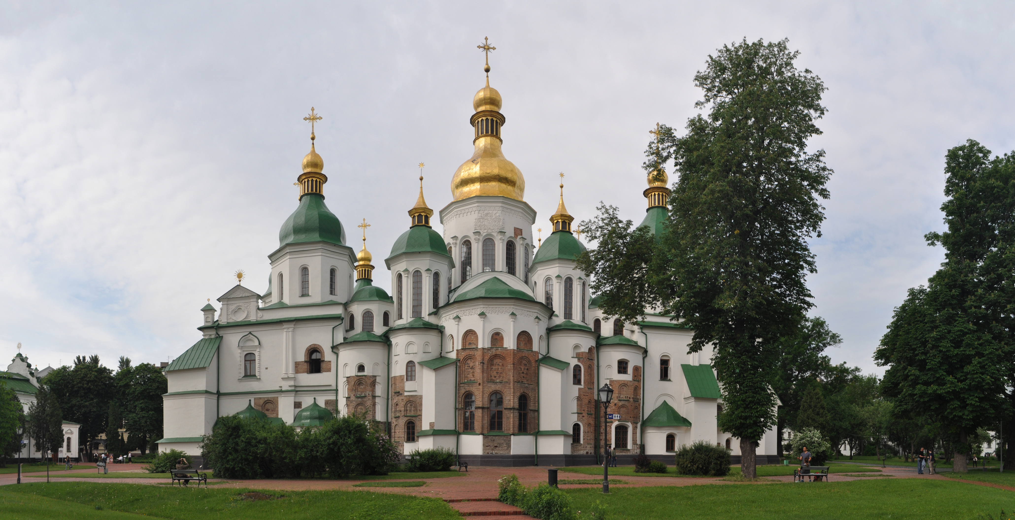 Saint Sophia Cathedral in Kiev